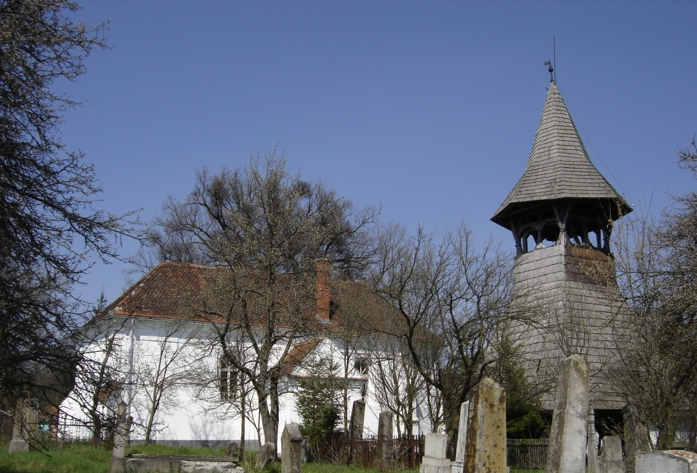 Calnic, Unitarian Church and wooden belfries (18th century)